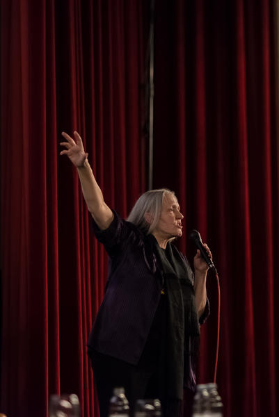 Saskia Sassen speaking on Subversive Festival 2012 in Zagreb.